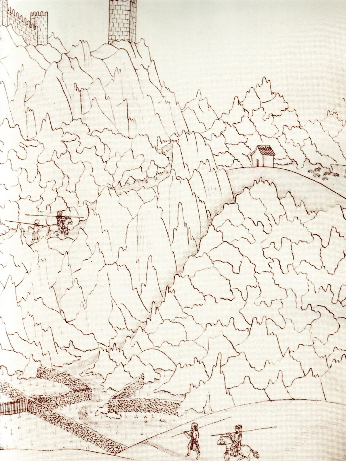 Detail of a drawing by Duarte D'Armas showing him and his helper climbing up to the village of Monsanto, in Portugal. From the Livro das Fortalezas (Book of Fortresses), 1510.